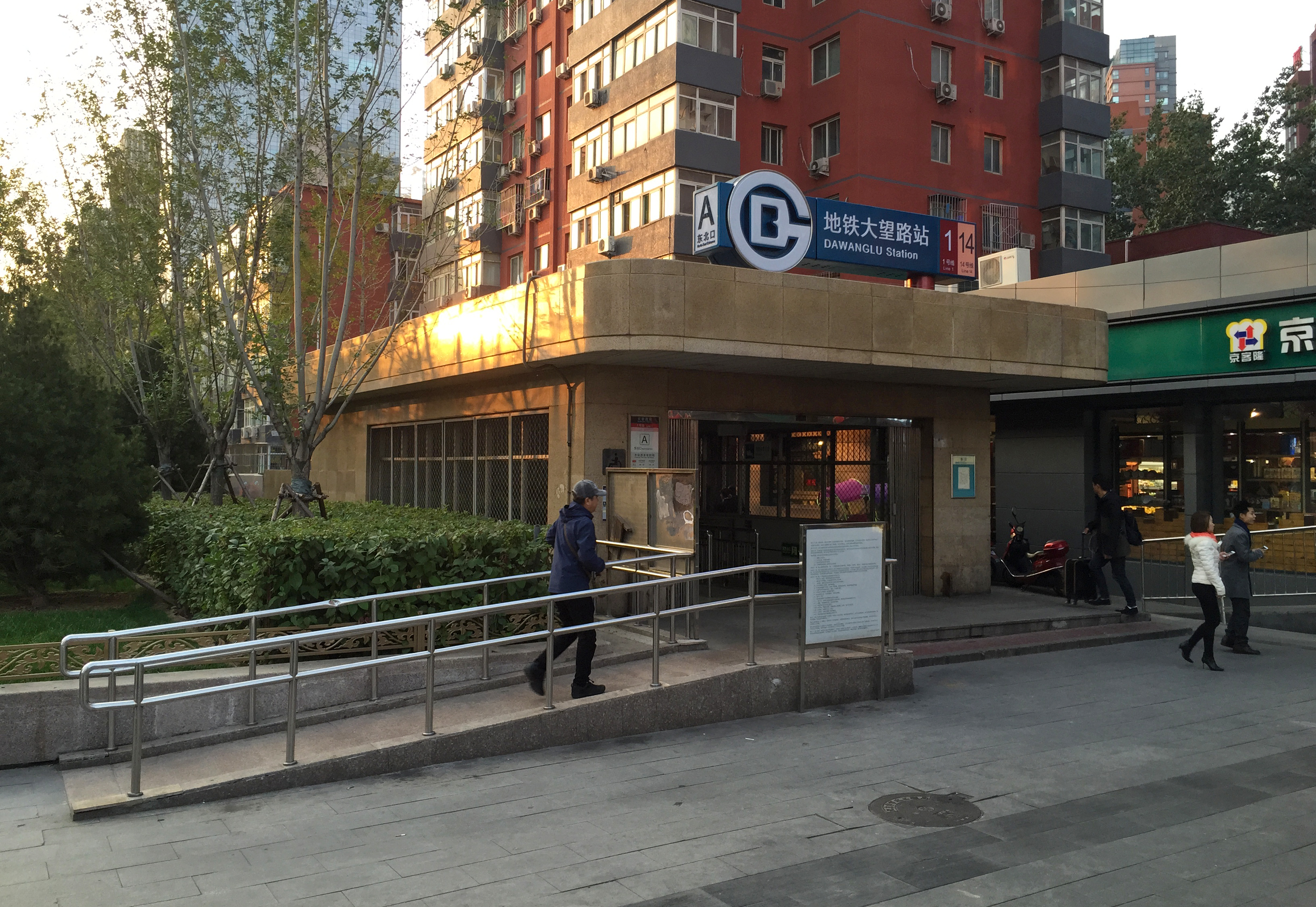 Fuba-style pavilion with new sign.